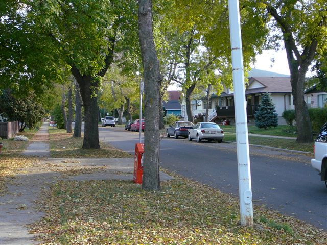 Looking south along 89 Street NW from Rowland Road in Edmonton.